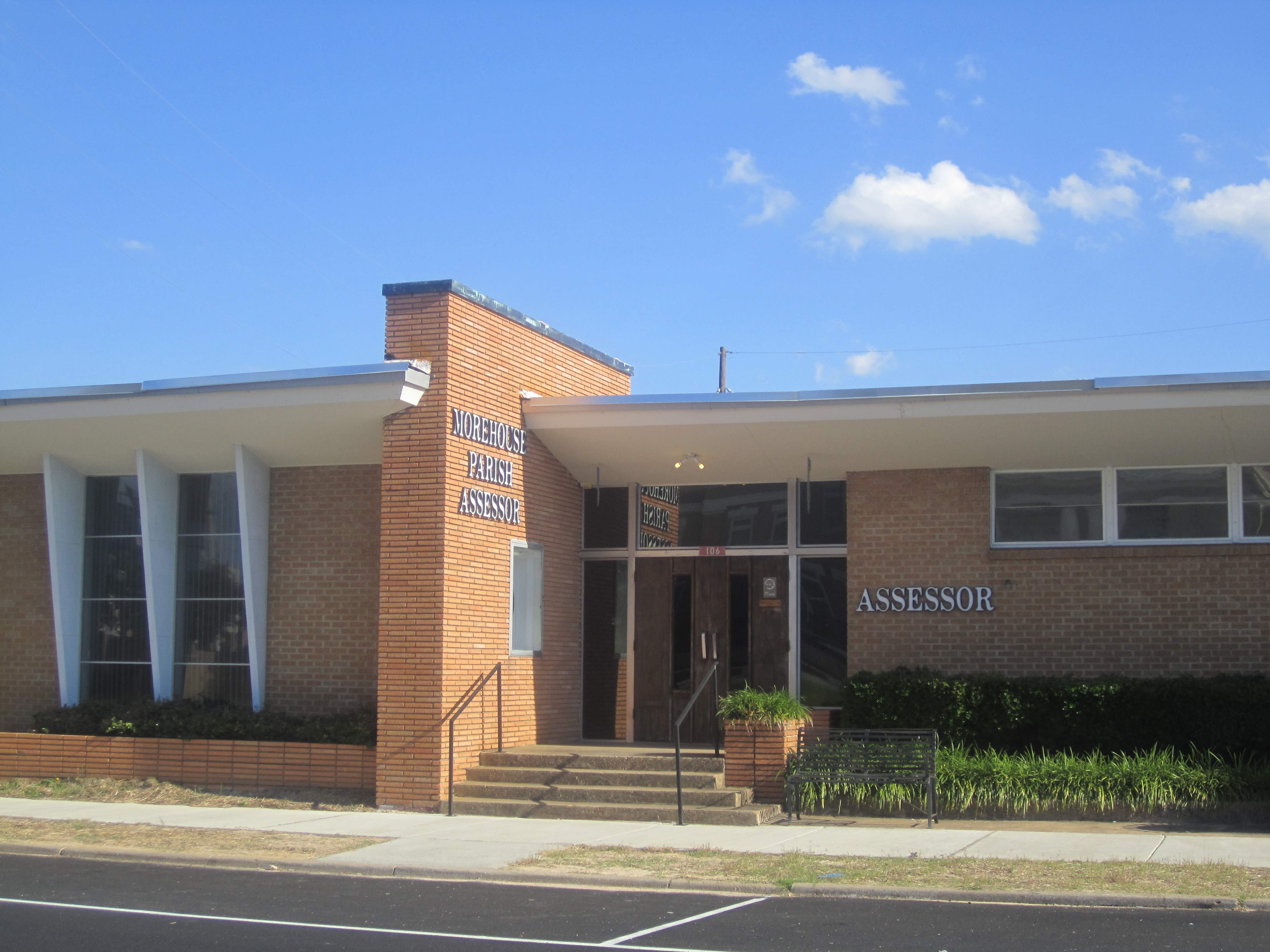 I took photo with Canon camera in Bastrop, LA: Assessor's Office.